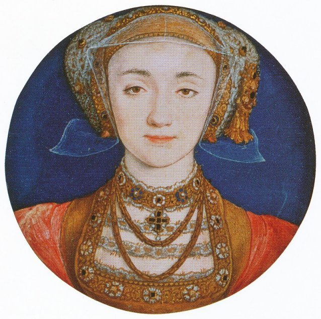 Portrait miniature of Anne of Cleves (1515-1557), set in a turned ivory box.